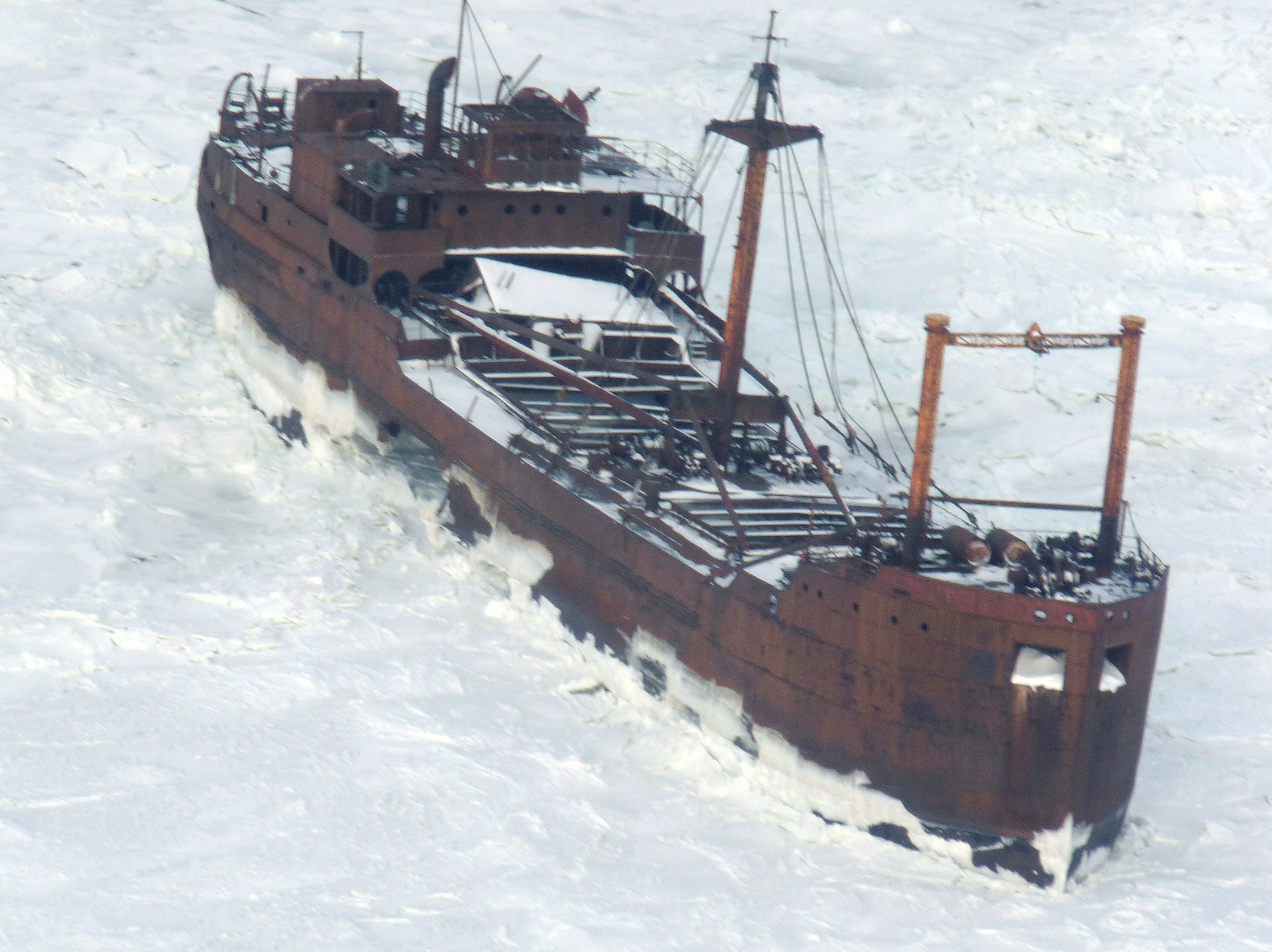 MV Ithaca, a 260 ft steamship that ran aground a tidal flat in Hudson Bay in 1960, outside Churchill, Manitoba. Viewed from a helicopter.